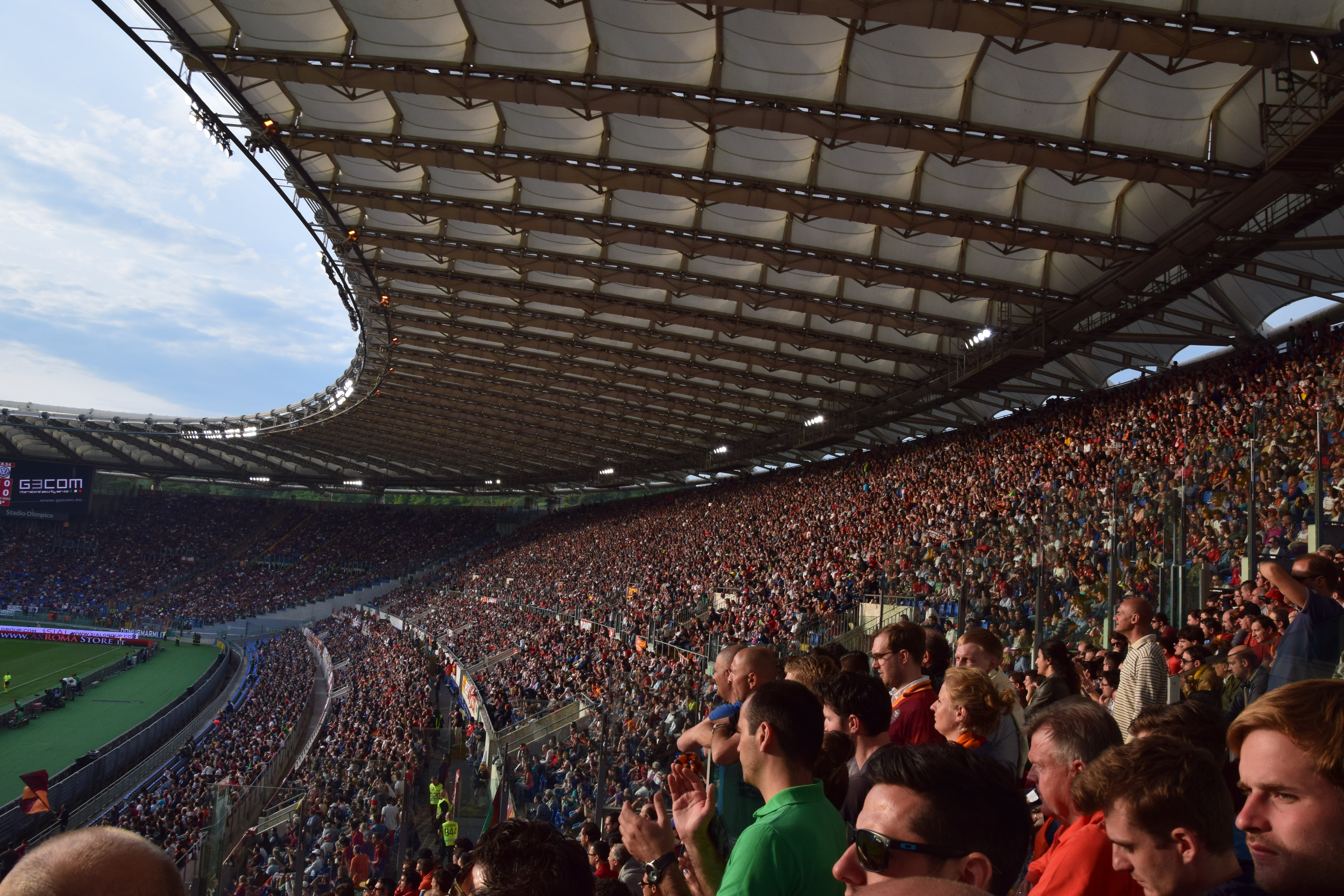 Stadio Olimpico (Rome), 11 May 2014, AS Roma v Juventus FC (0-1), Serie A 2013-14.